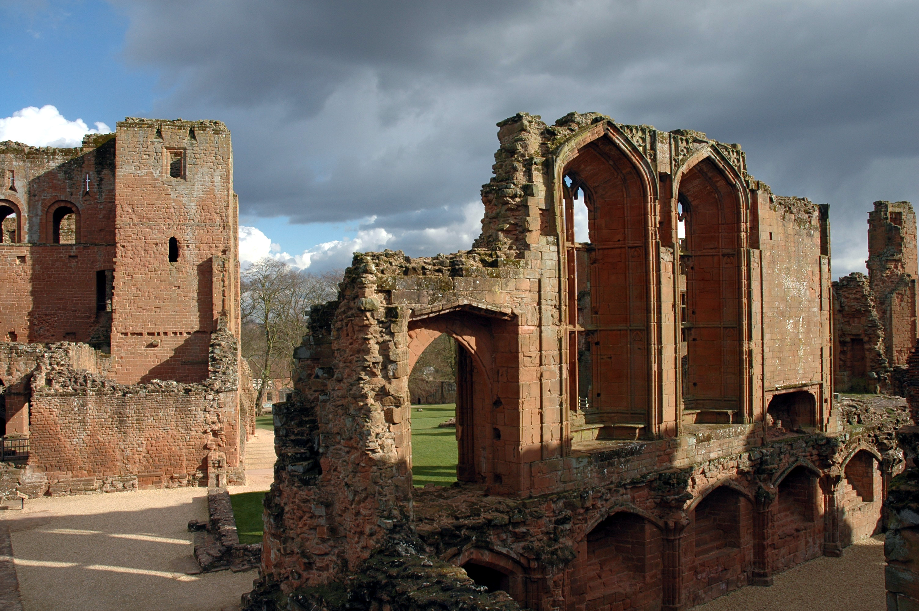 Kenilworth Castle, Keep on the left and windows of the Great Hall on the right